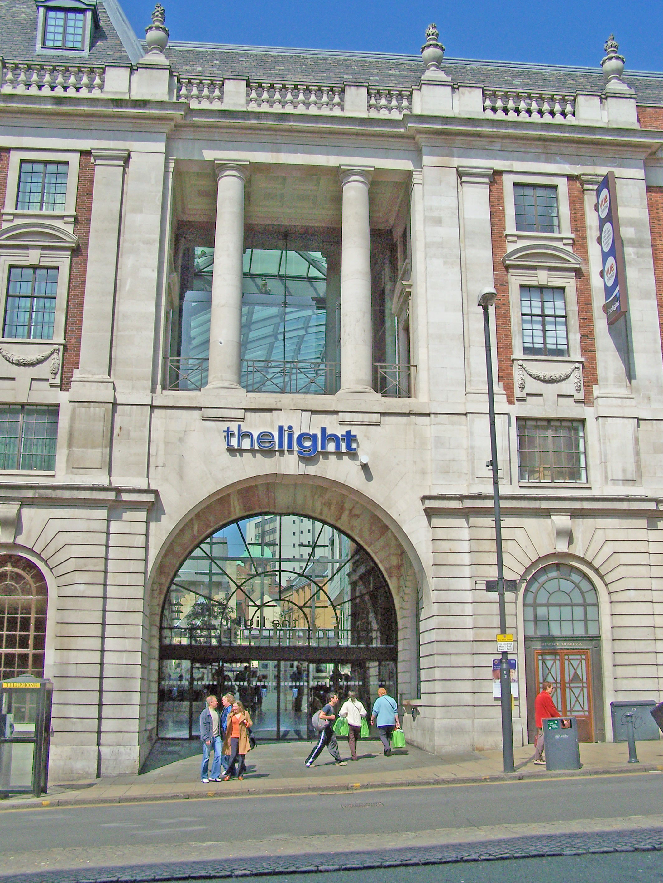 Photo of the southern entrance to The Light, Leeds (shopping centre)